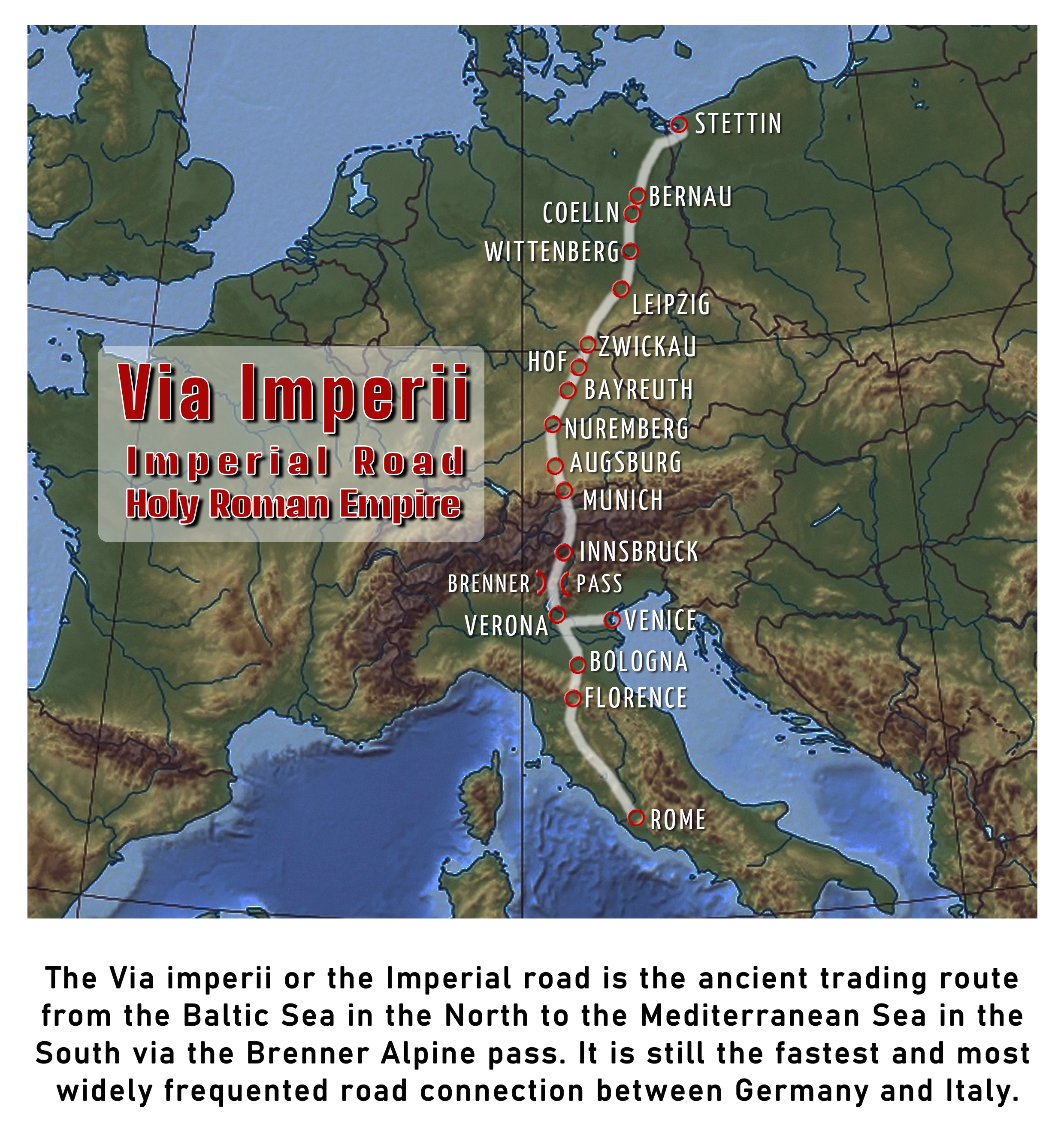 Map of Central Europe with the most important trade route and road connection between Italy and Germany